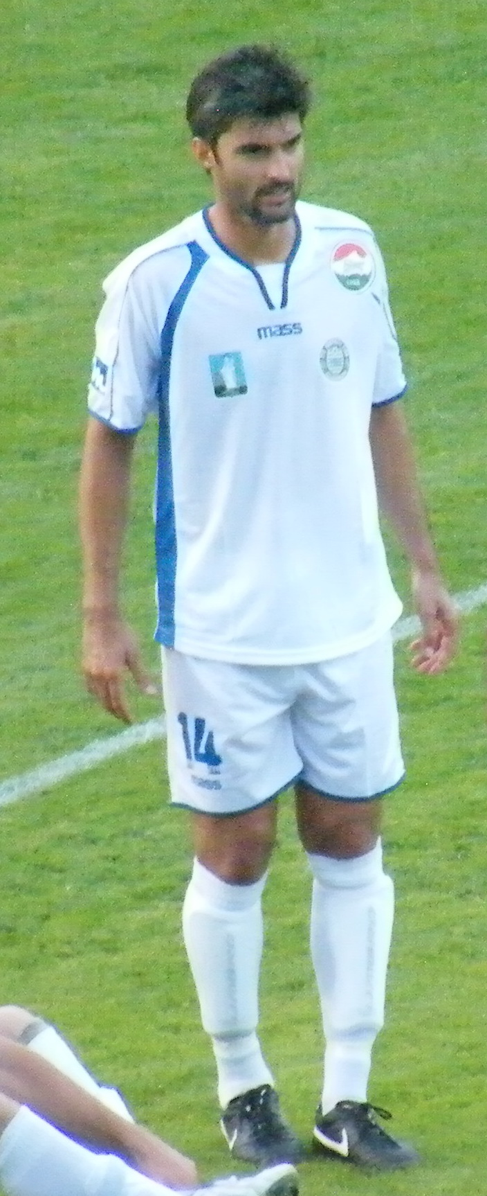 Tamás Szalai Hungarian association football player.